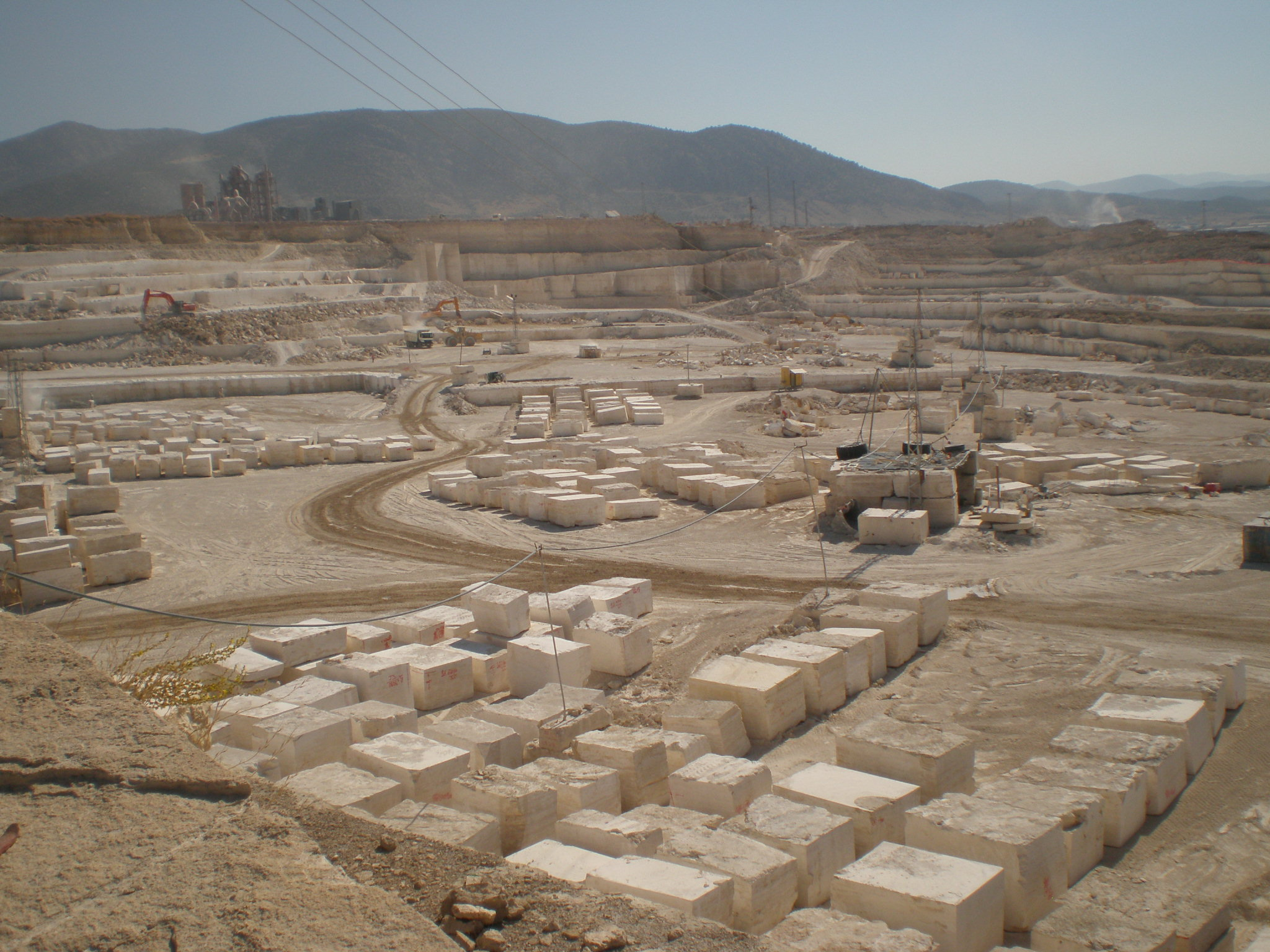 a traverten quarry in Denizli, Turkey.